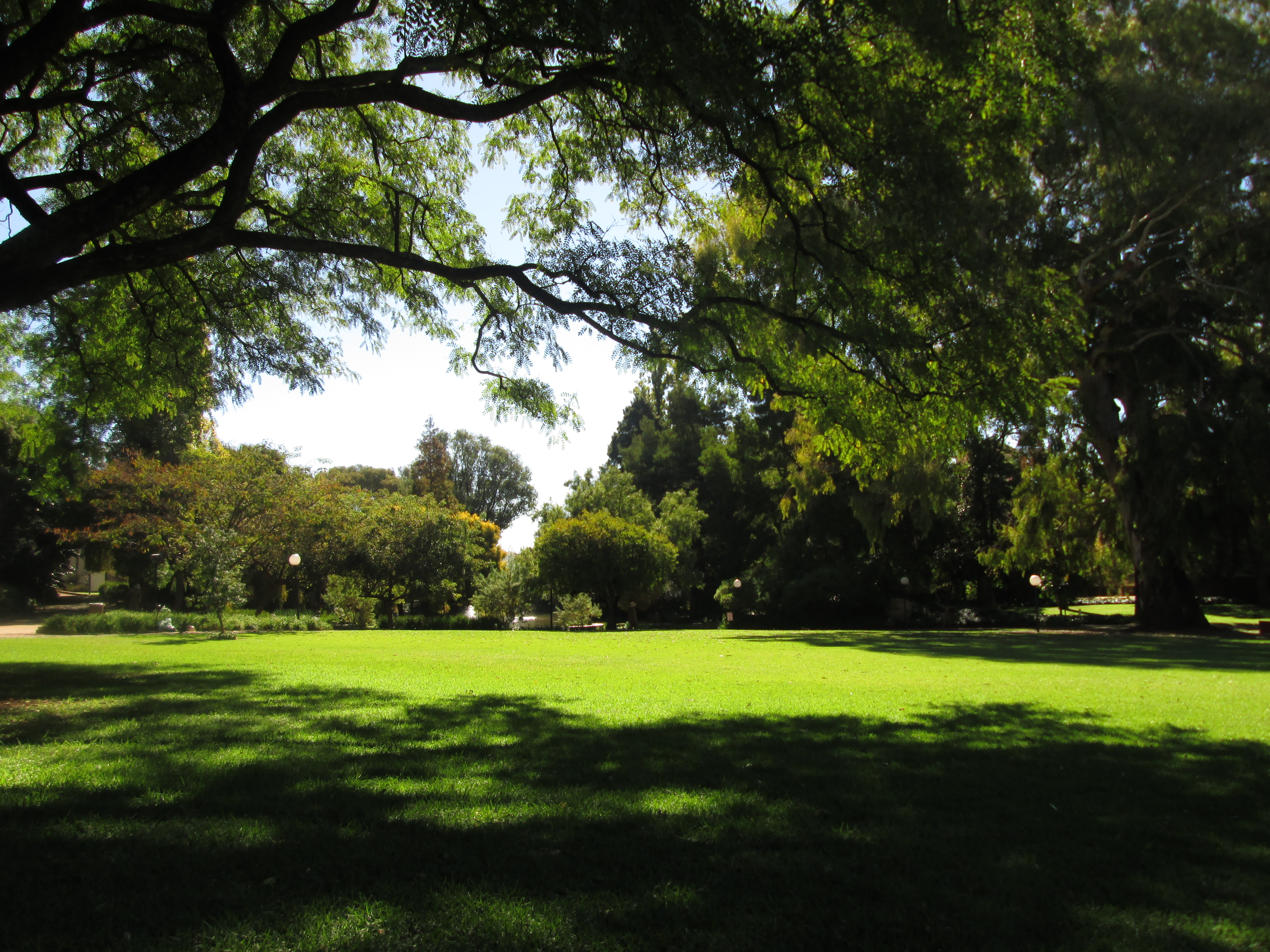 The Gavin Reilly Green (colloquially "the Law Lawns") on the West Campus of the University of the Witwatersrand, Johannesburg, facing west in the direction of the pond.